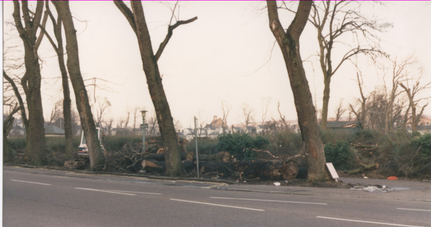 Elm trees at the Level in Brighton UK damaged by a storm